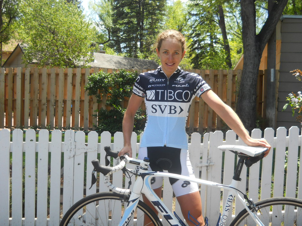 A photograph of JoAnne Kiesanowski